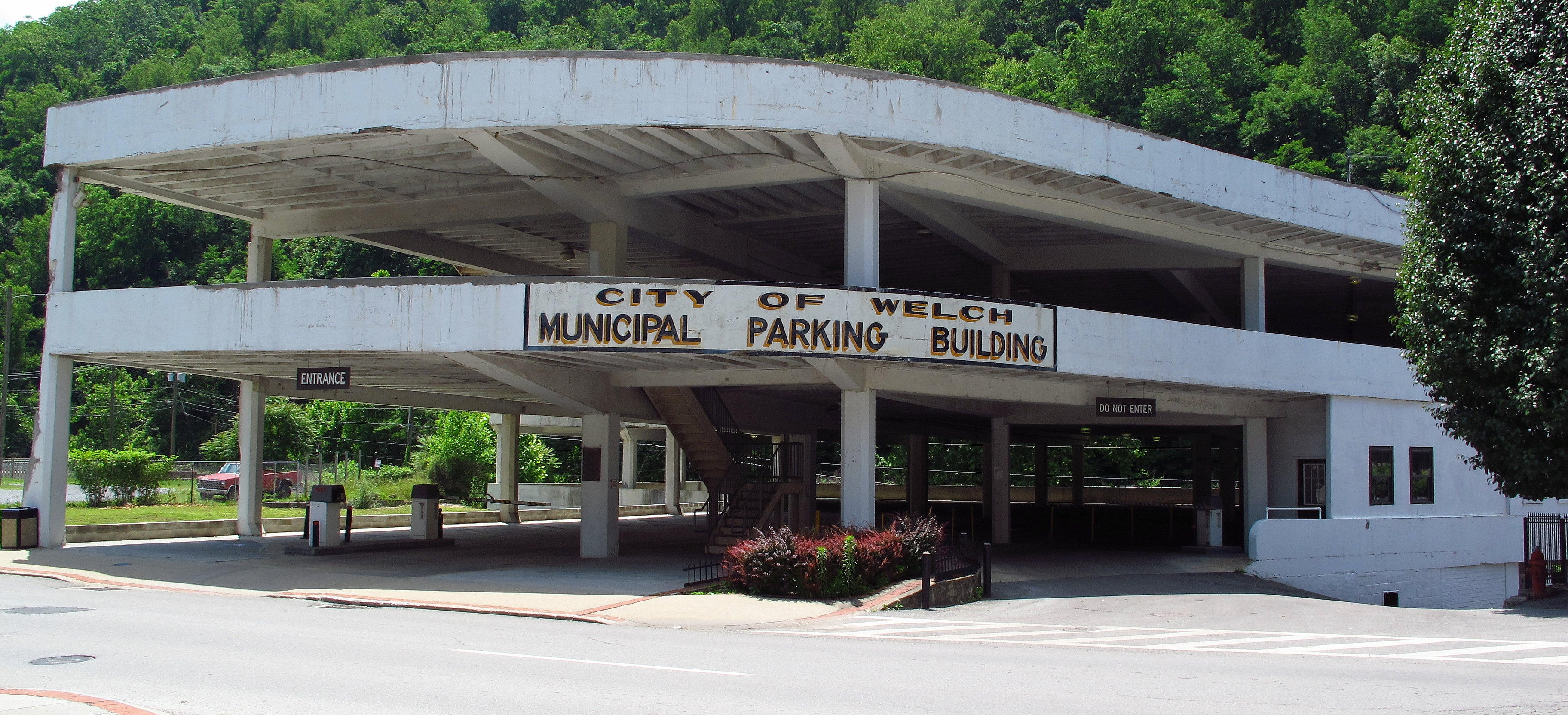 The first municipally-owned parking building in the United States, completed in 1941 in Welch, West Virginia.